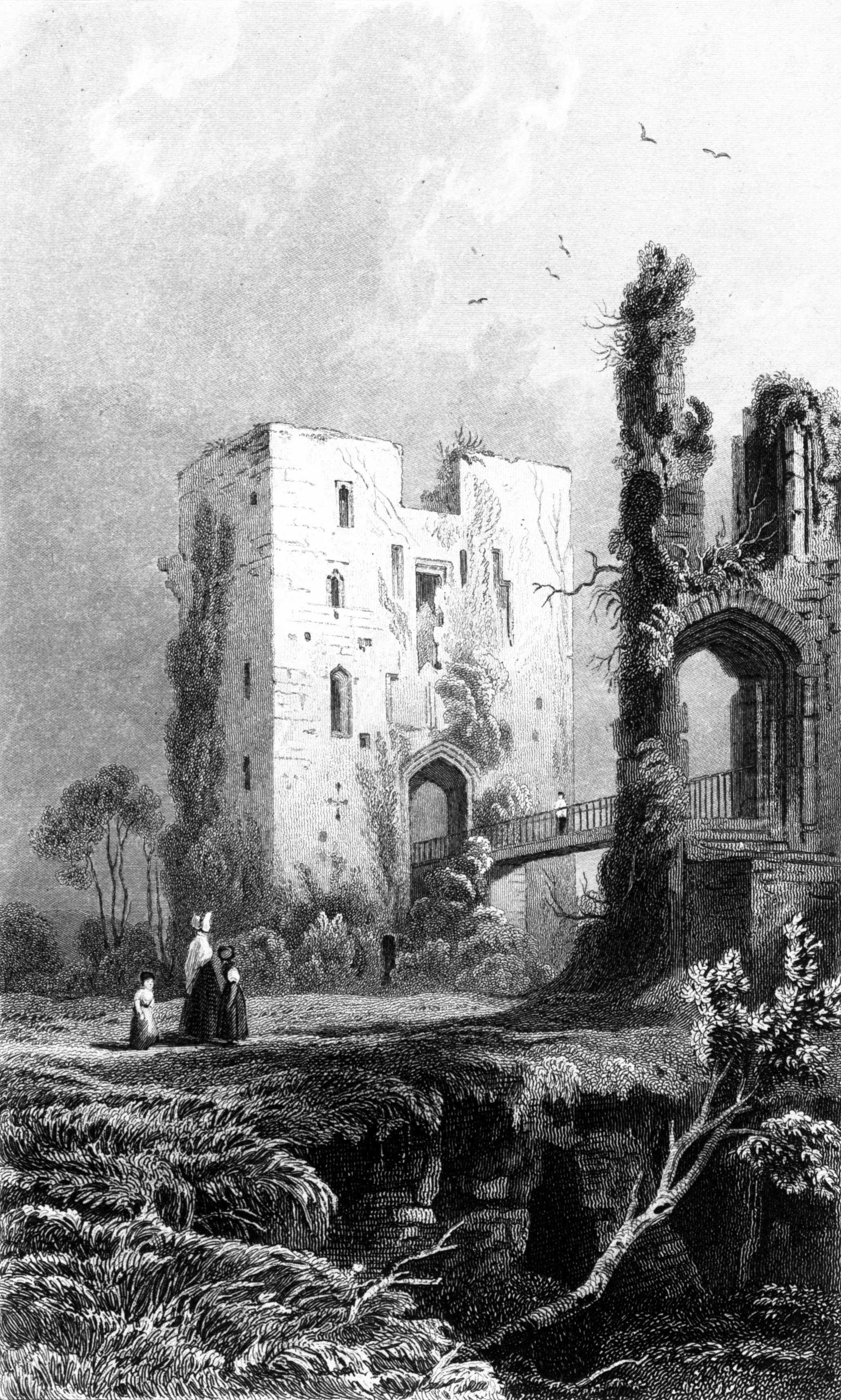 Raglan Castle by B. B. Woodward in History of Wales (1853)